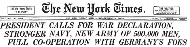 NY Times headline April 3 1917 as Wilson calls for war Other information no